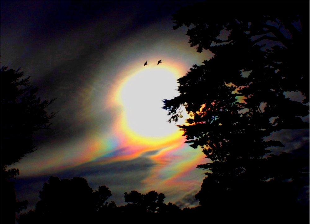 Iridescent Clouds